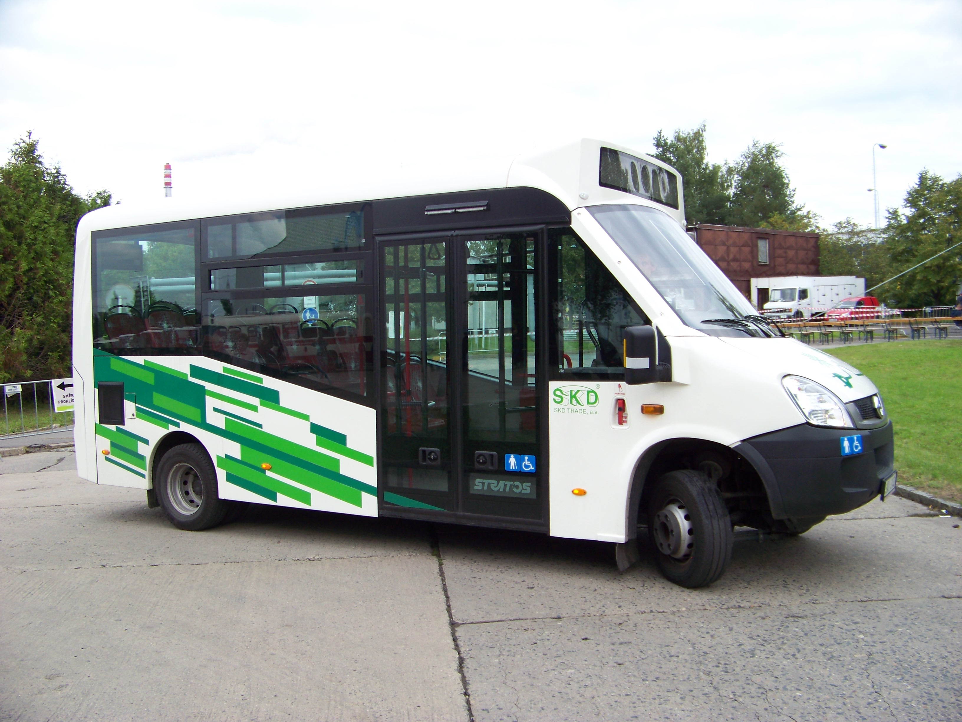 Prague-Malešice, Czech Republic. A bus depot and repair base, open doors day. Electric bus Stratos LE 30 E. - OpenStreetMap (Info)